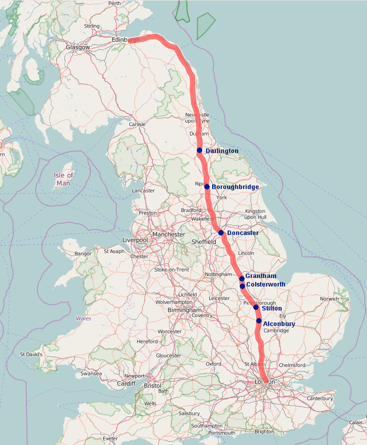 Rough course of the Great North Road London–Edinburgh. Compiled from the description given in the WP article as well as roads still named "Great North Road" in OpenStreetMap, indicating sections of the road.